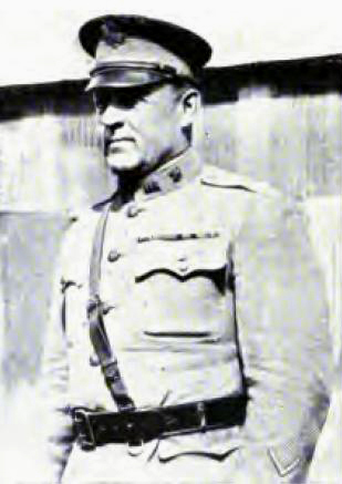 Photo of Colonel Harry Hegeman in 1918